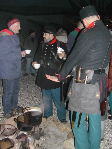 Evening before the 140th anniversary of the of the storming of Dybbøl (18 April 1864). Danish historical reenactors on the national memorial in front of a campfire drinking coffee just before the actual performance.